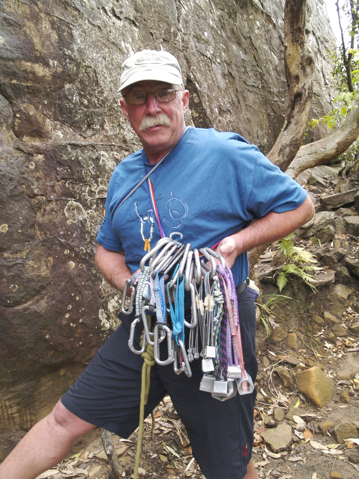 Henry Barber displays his 21-piece rack at Barrenjoey Headland, near Sydney, November 8, 2007. It's the same size rack he used to climb the Nose of El Capitan in the 1970s.